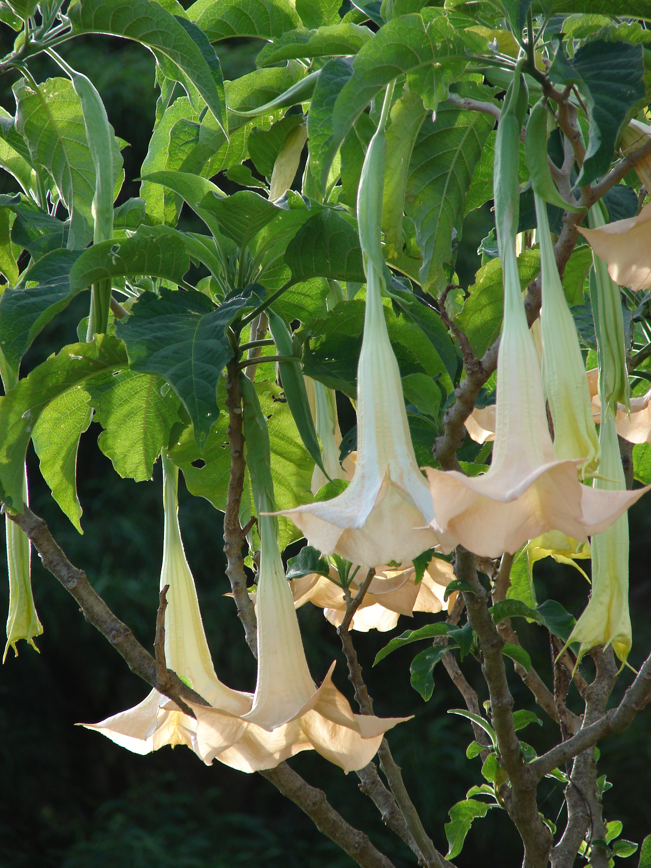 Brugmansia x candida (flowers). Location: Maui, Olinda